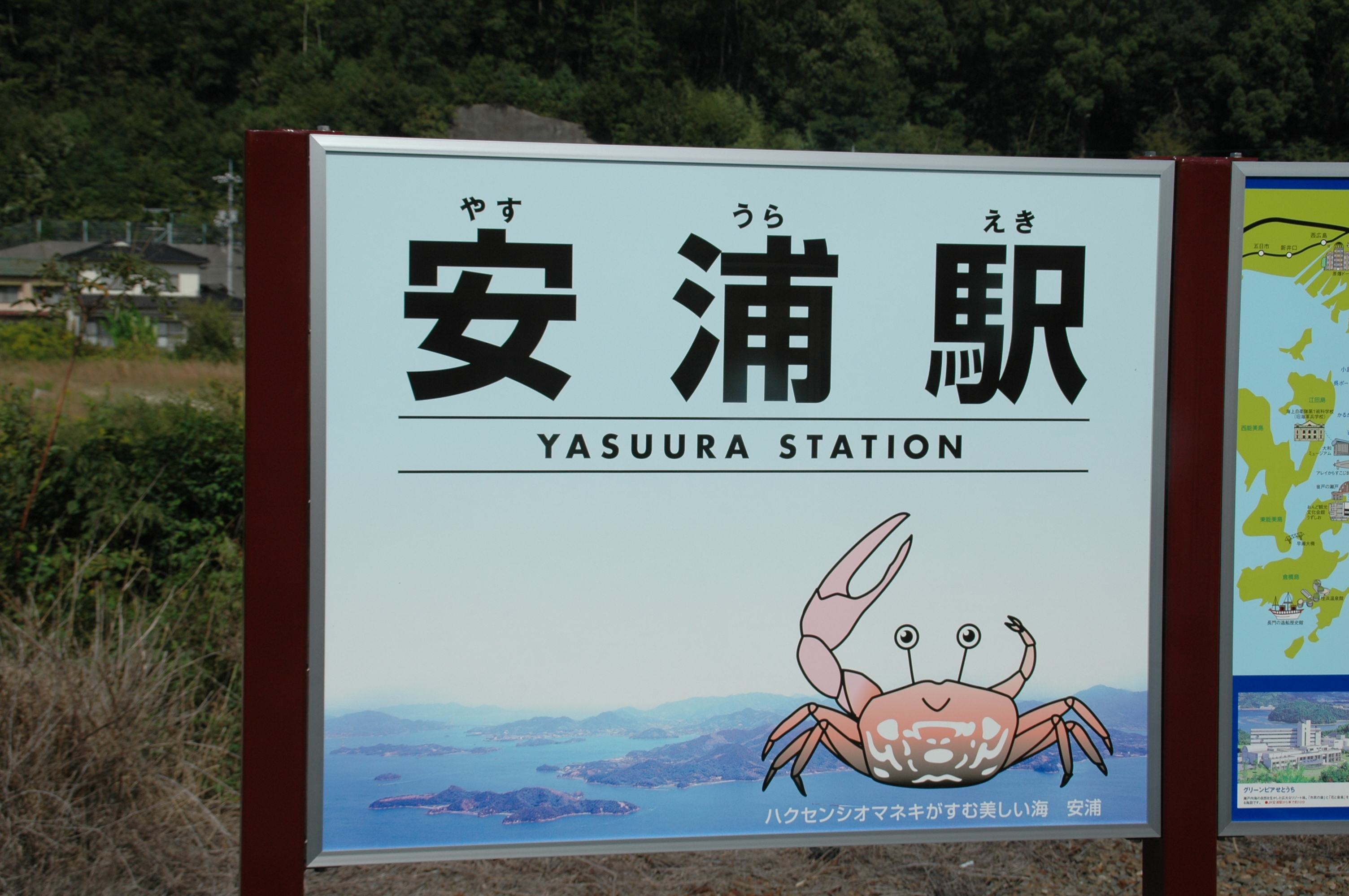 JR-WEST(JAPAN) Kure Line, Yasuura Sta. Station name sign. photo by 2005.10.9